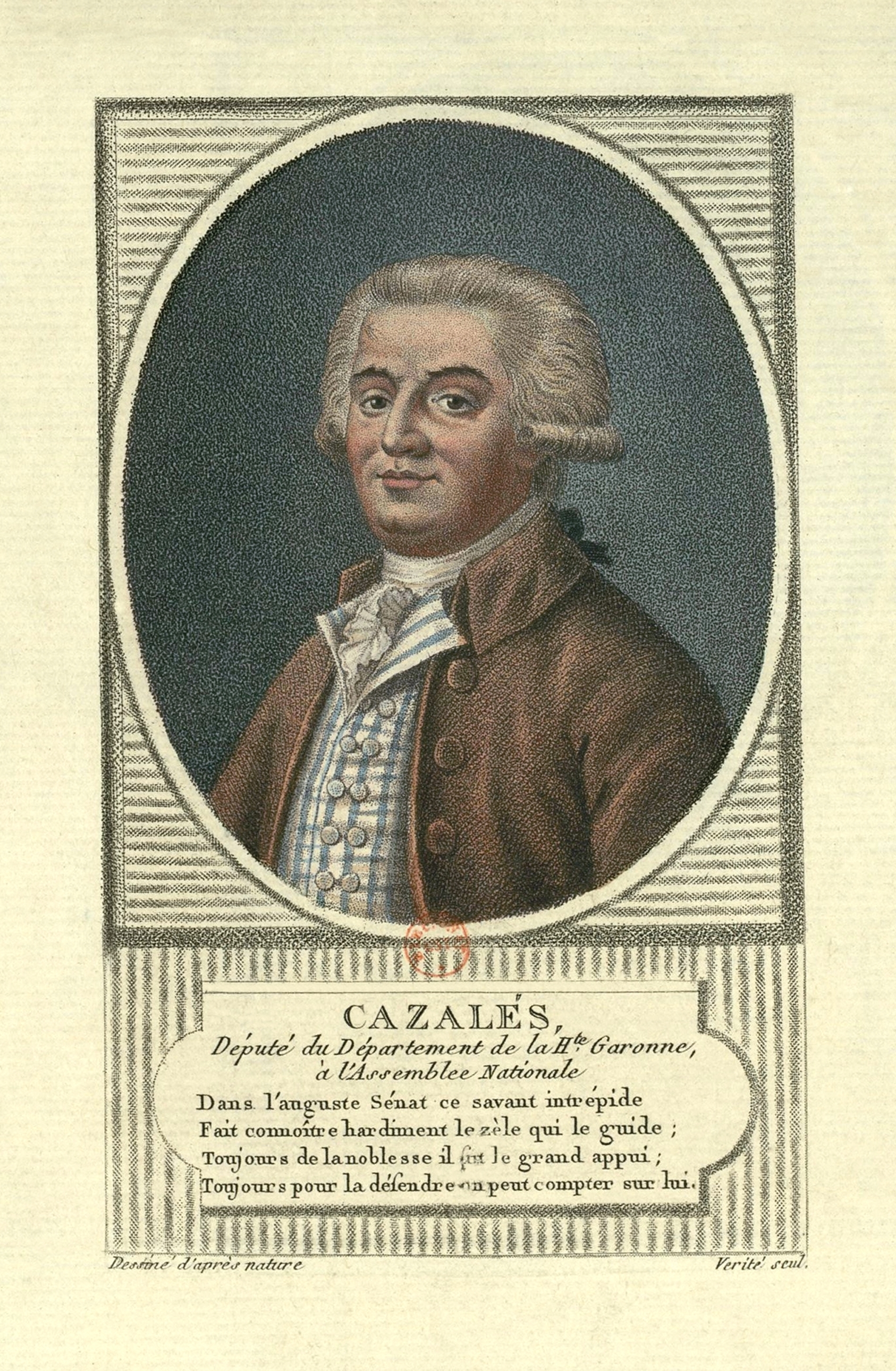 Jacques Antoine Marie de Cazalès, (1758-1805), Deputy of the nobility of Haute-Garonne to the state generals.